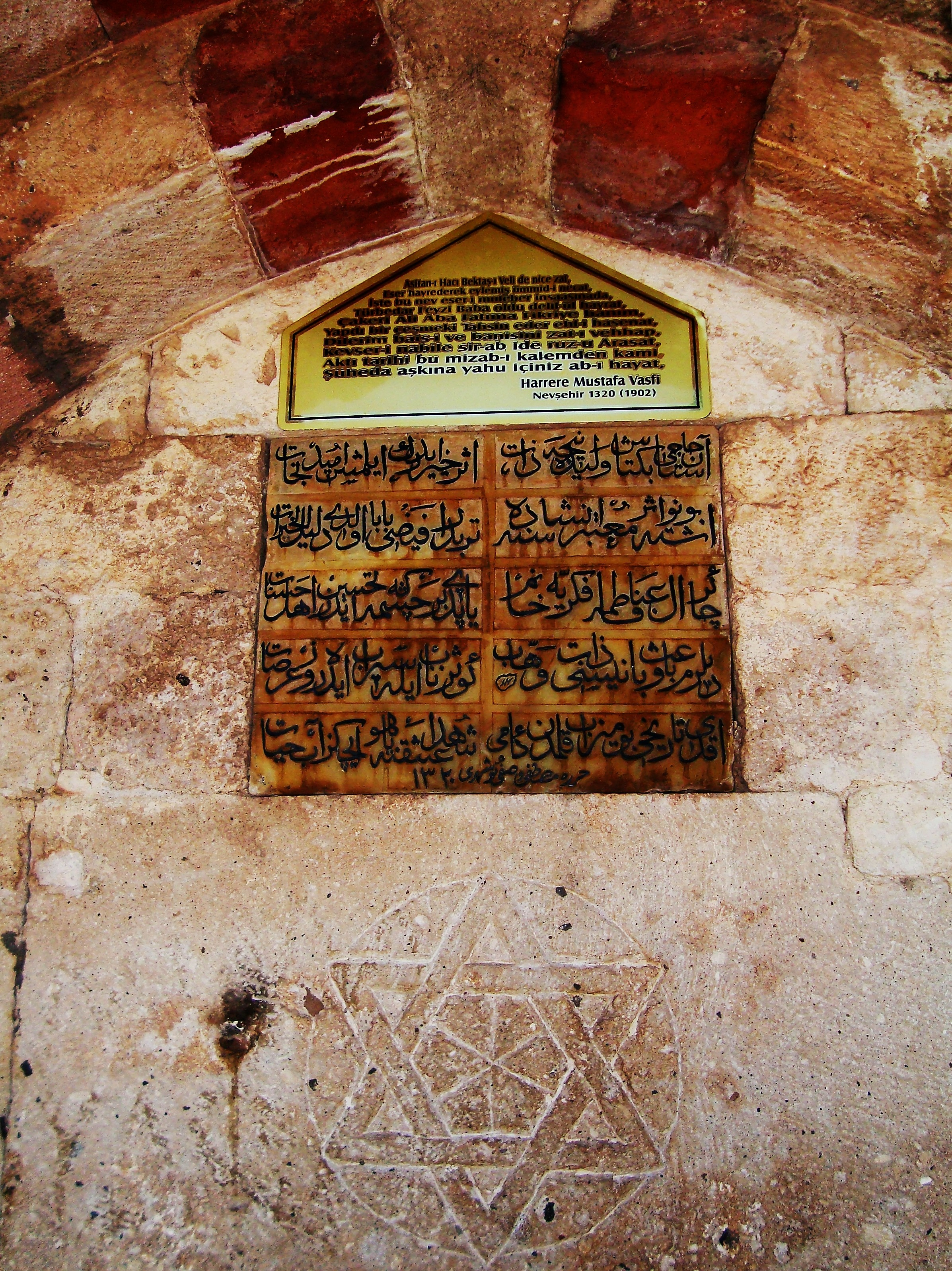 Picture of Üçler Çeşmesi at the Haji Bektash Mausoleum.